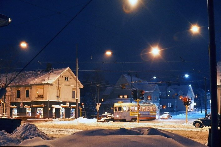 Høka MBO (SM53) no. 204 tram at Storokrysset